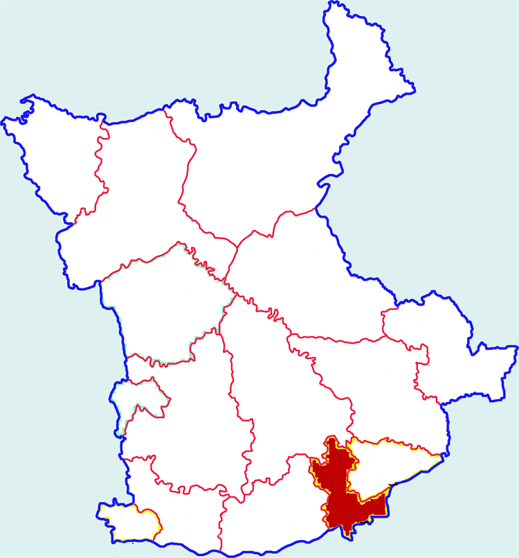 Location of Qindu district in Xianyang city, China